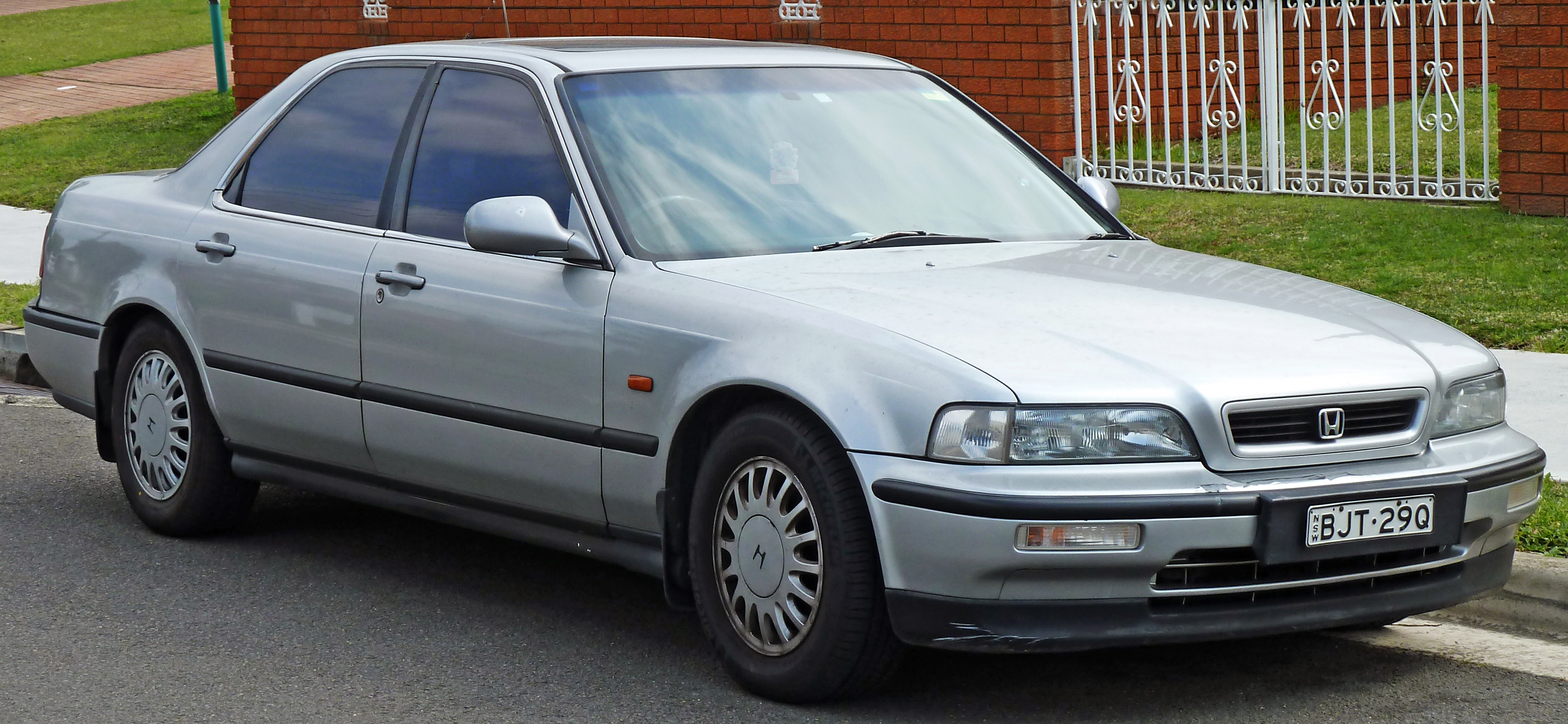 1994 Honda Legend (KA7) sedan. Photographed in Taren Point, New South Wales, Australia.